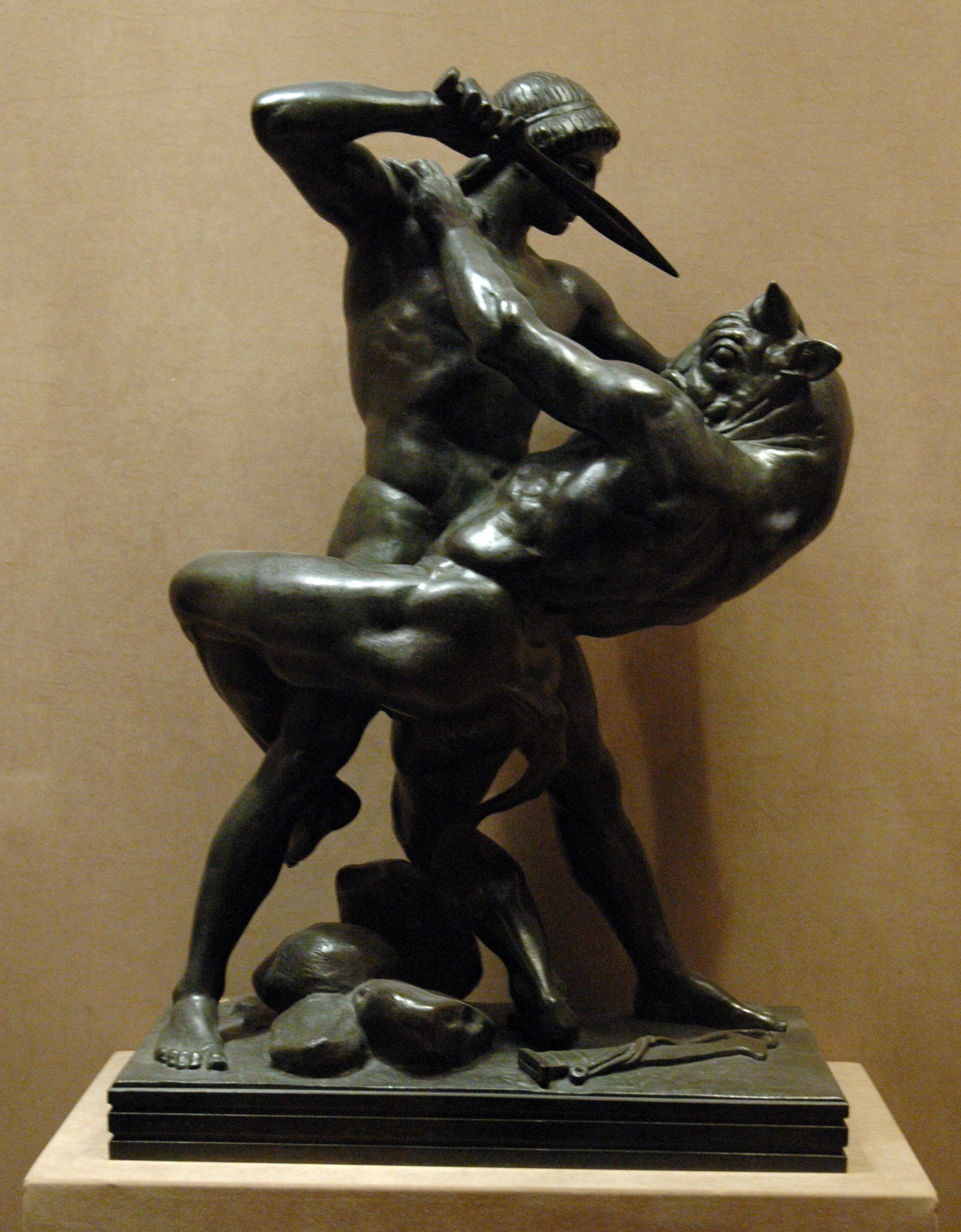 Antoine-Louis Barye, Thésée et le Minotaure (Theseus and the Minotaur). Bronze, modelled in 1840, cast posthumously by F. Barbédienne. Los Angeles County Museum of Art, James E. Clark Bequest, accession number: M.87.119.5.